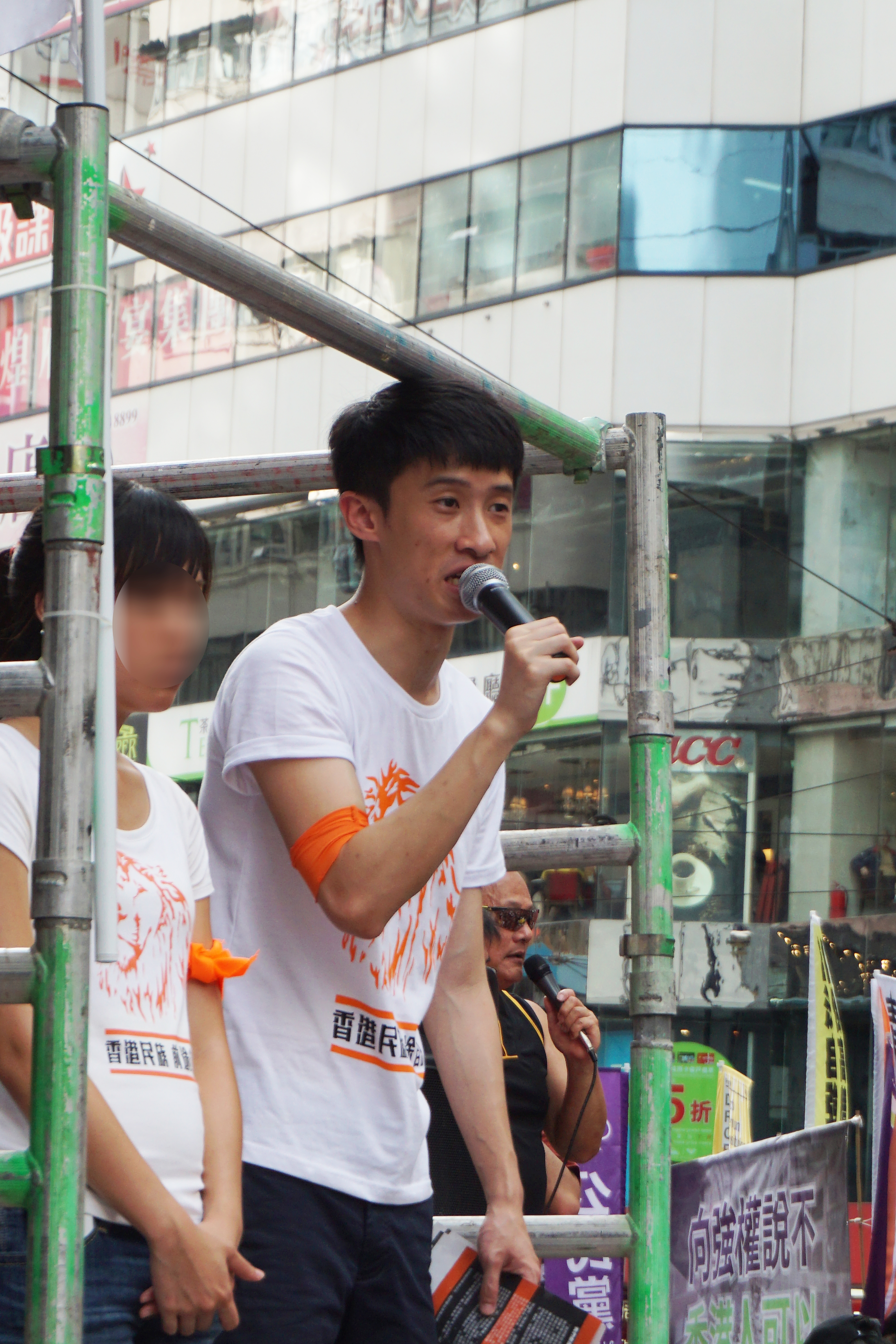 Baggio Leung Chung-hang, Hong Kong.